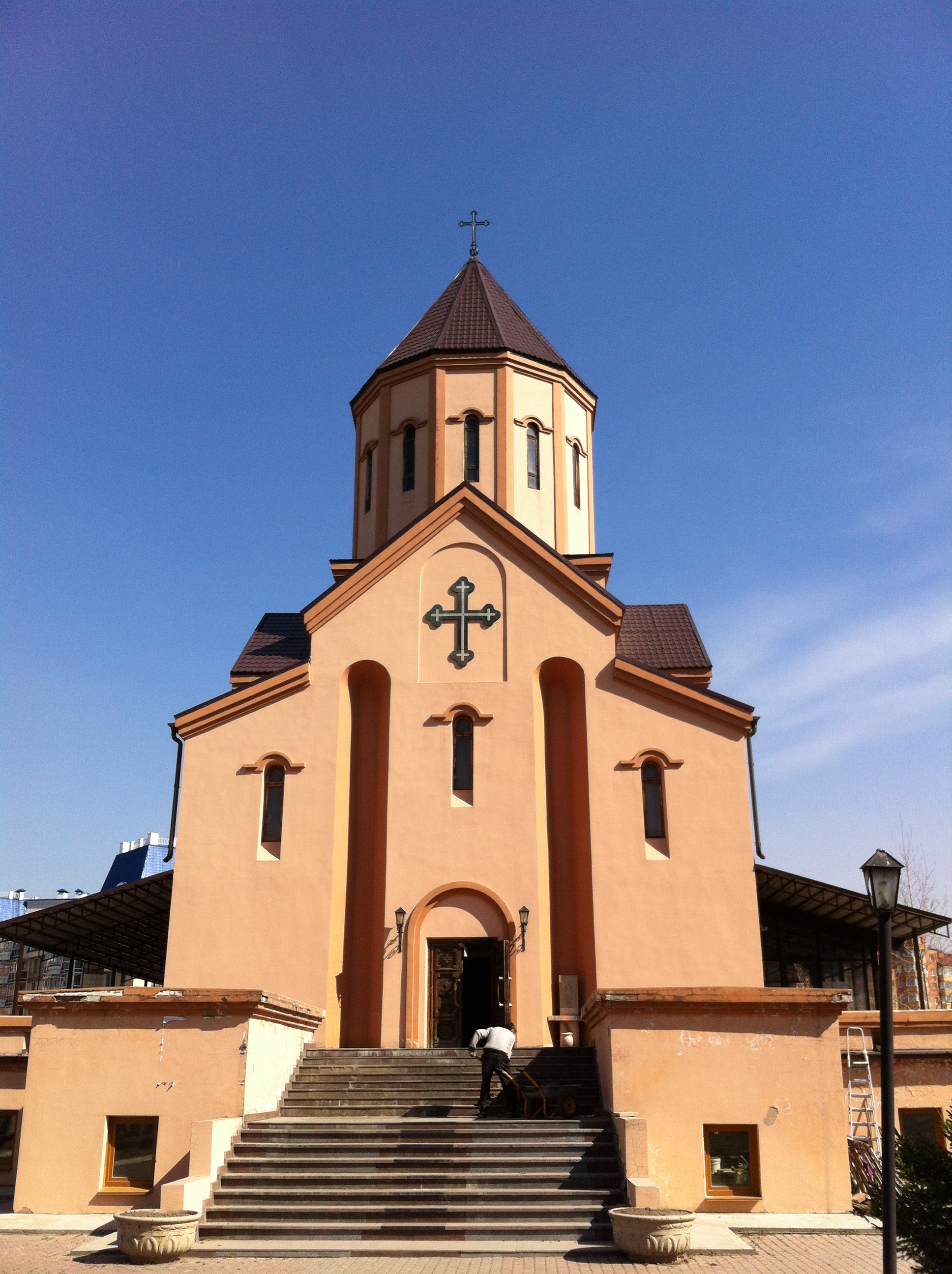 St. Sarkis church in Krasnoyarsk